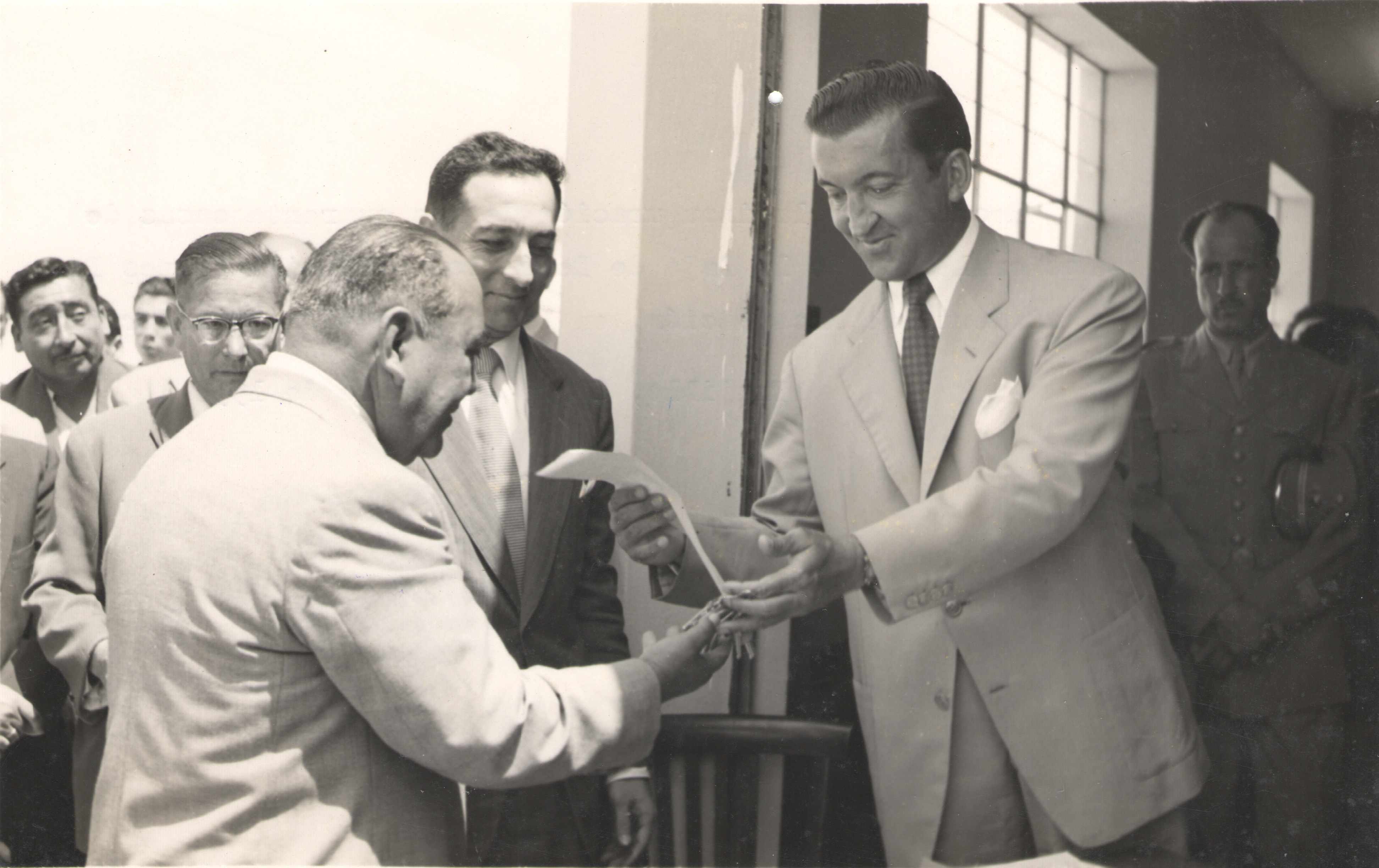 Mutual Panamericana